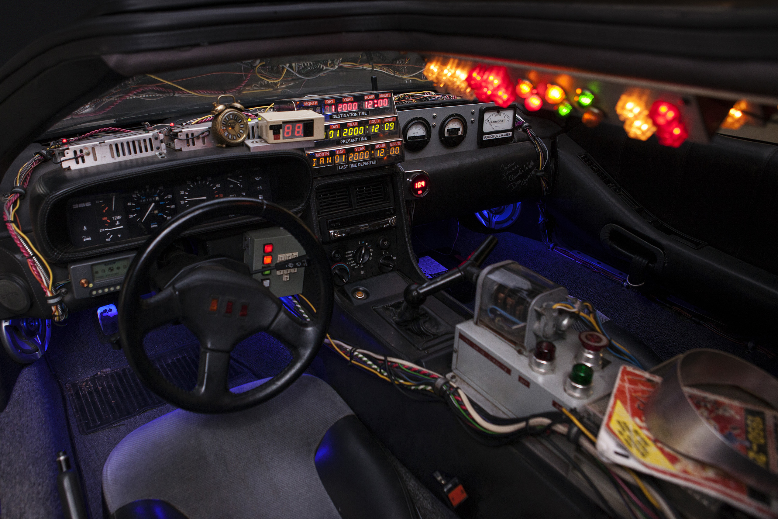 Back to the Future DeLorean Time Machine interior view facing front